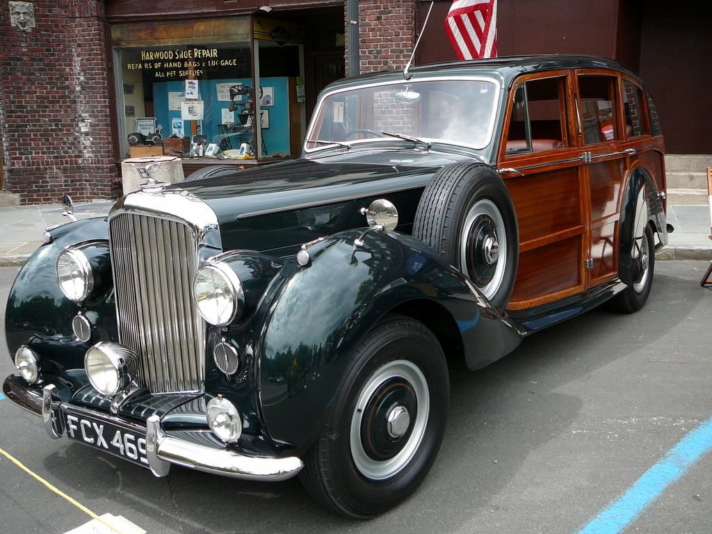 At the 2006 Scarsdale Coucours